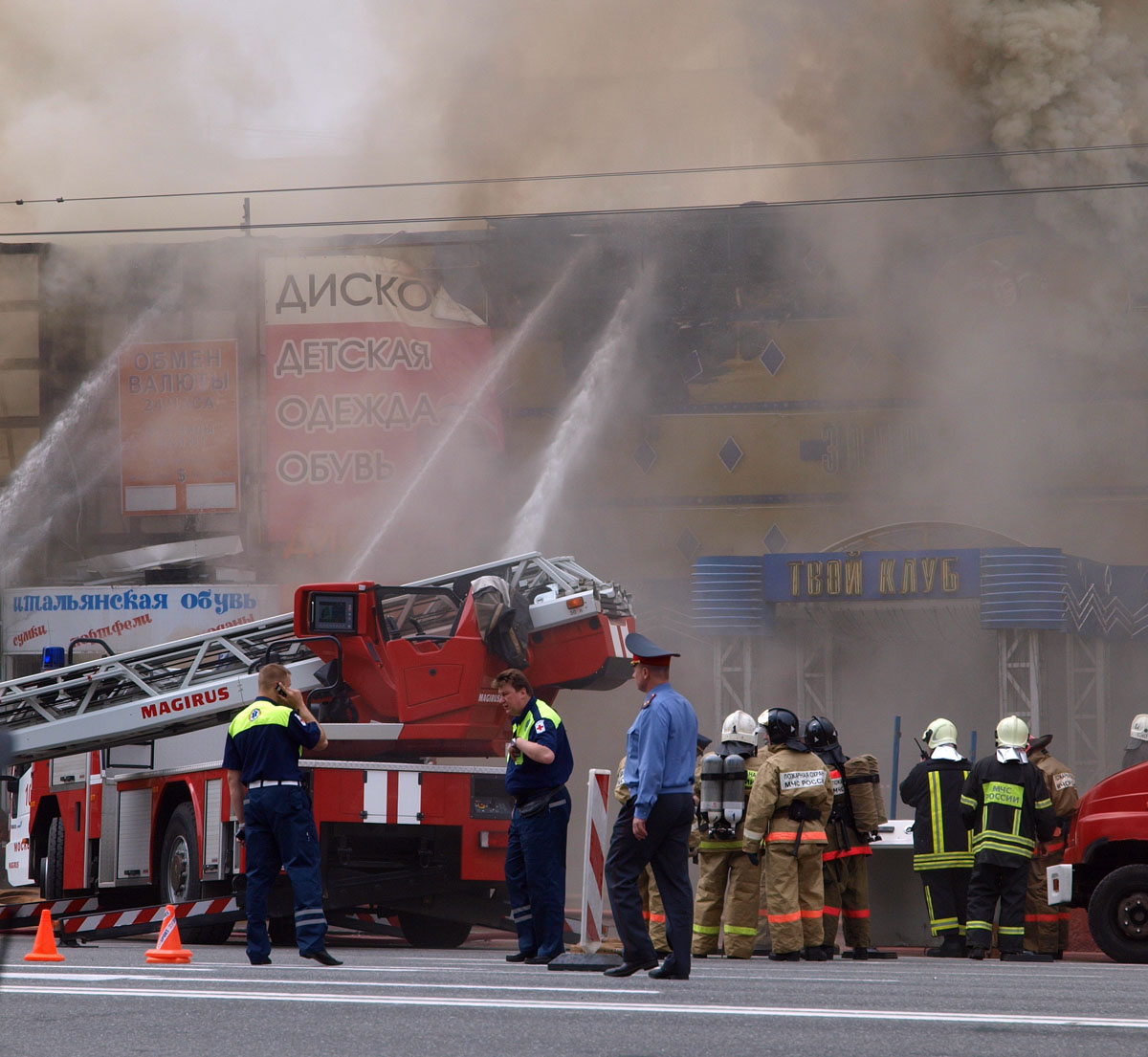 12:20, May 11, 2009, Moscow. A fire broke out at a two-story, 150-year-old building at Smolenskaya Square housing a gambling outfit. Heavy firefighting machines arrived on site at 12:30; open flames were suppressed by 13:20 and the fire was declared completely over at 16:37. See annotated gallery at Smolenskaya Square (Moscow) fire of May 11, 2009